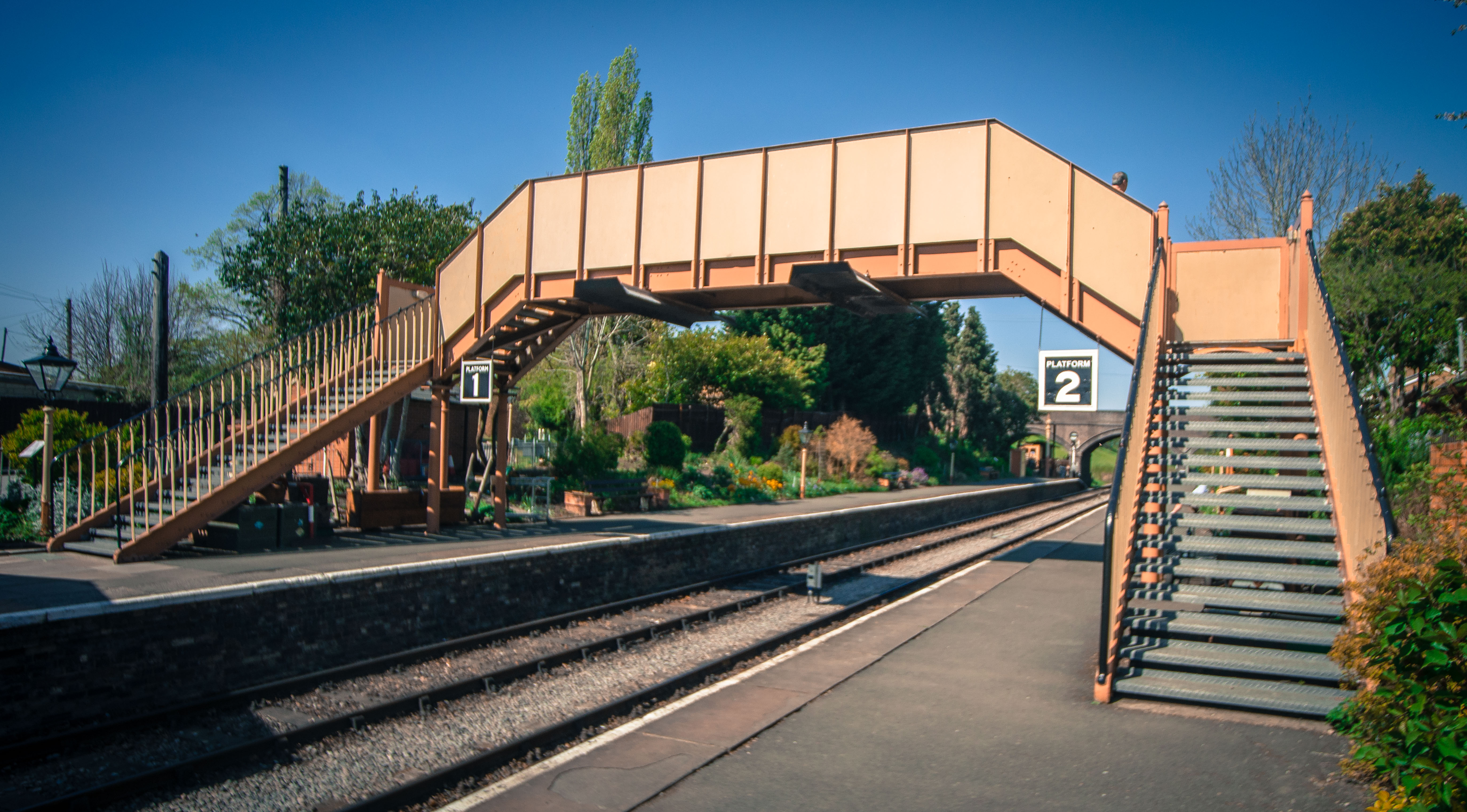 Toddington Station on the heritage railway line (Gloucestershire Warwickshire Steam Railway)